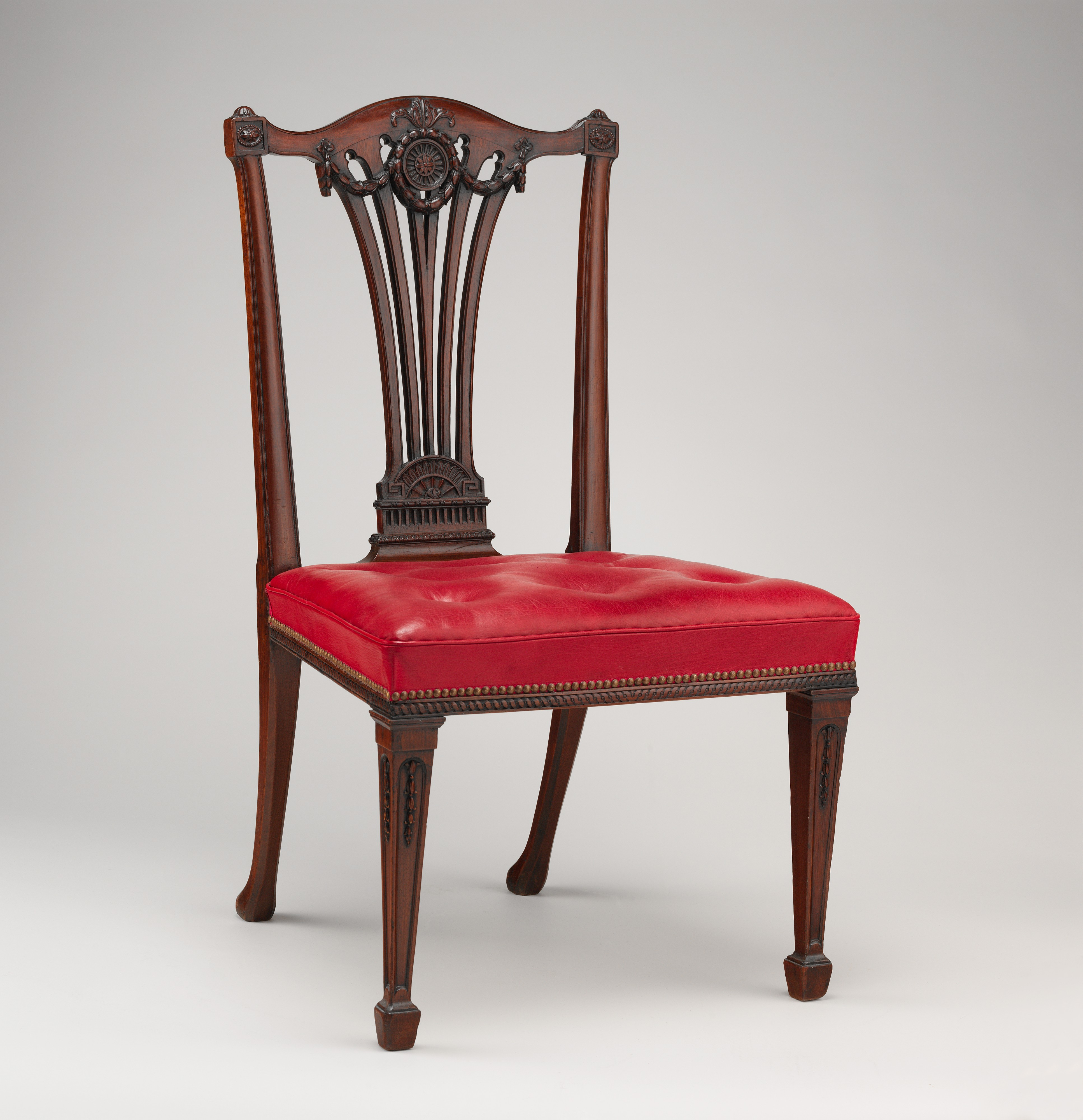 British; Side chairs; Woodwork-Furniture